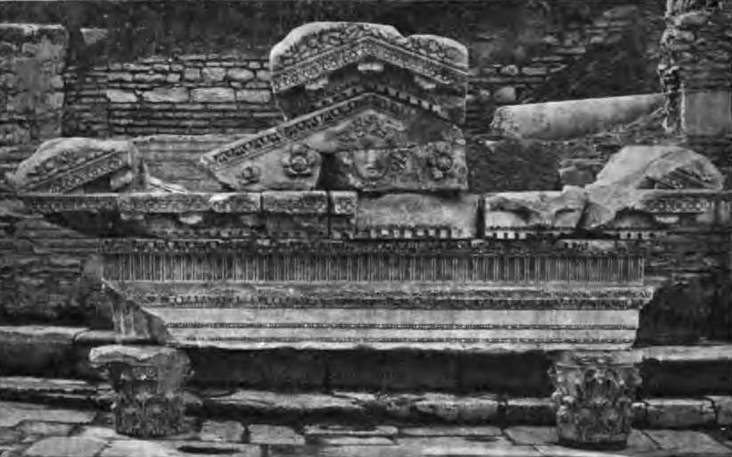 Library of ephesos before reconstruction, part of the upper floor